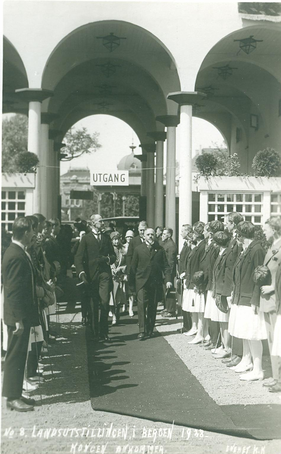 Artist: Atelier K.K. (Knud Knudsen) Date/place: May 1928, Bergen/Norway Subject: Norwegian King Haakon VII arrives at the National fair in Bergen 1928. Medium: Postcard Notes: More of Knudsen´s work available at: [#// the picture collection at the University of Bergen] (in Norwegian only). Persistent URL: n/a [#//nettbiblioteket.no/index_engelsk.html” Original belongs to the Local Collection at Bergen Public Library]